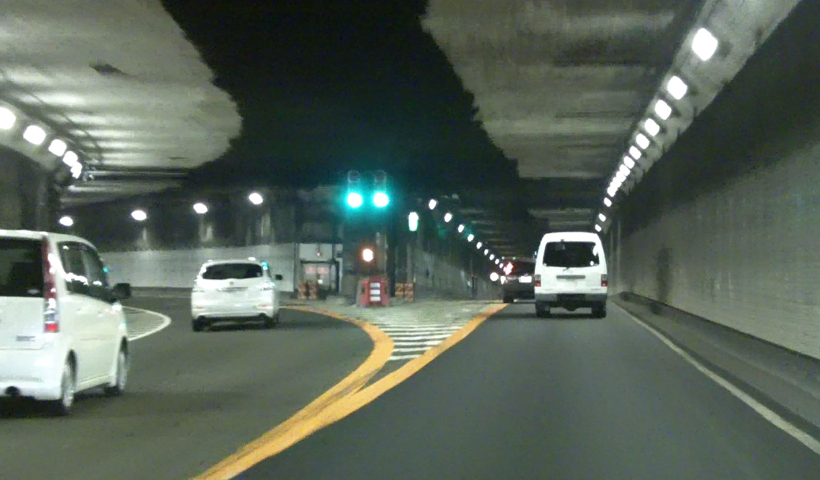 Miyakezaka Junction seen from the Route 4 inbound line